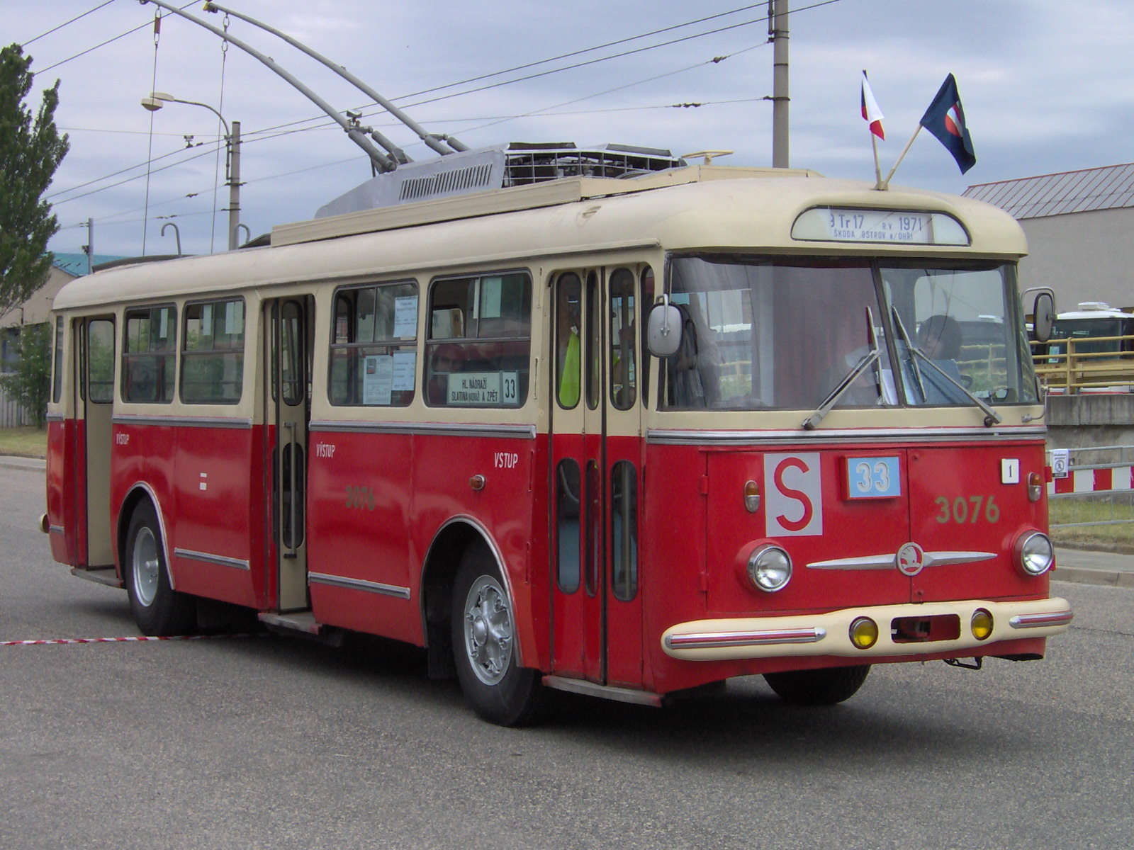 Historical Škoda 9Tr trolleybus in Brno (now possession of Technical museum Brno)